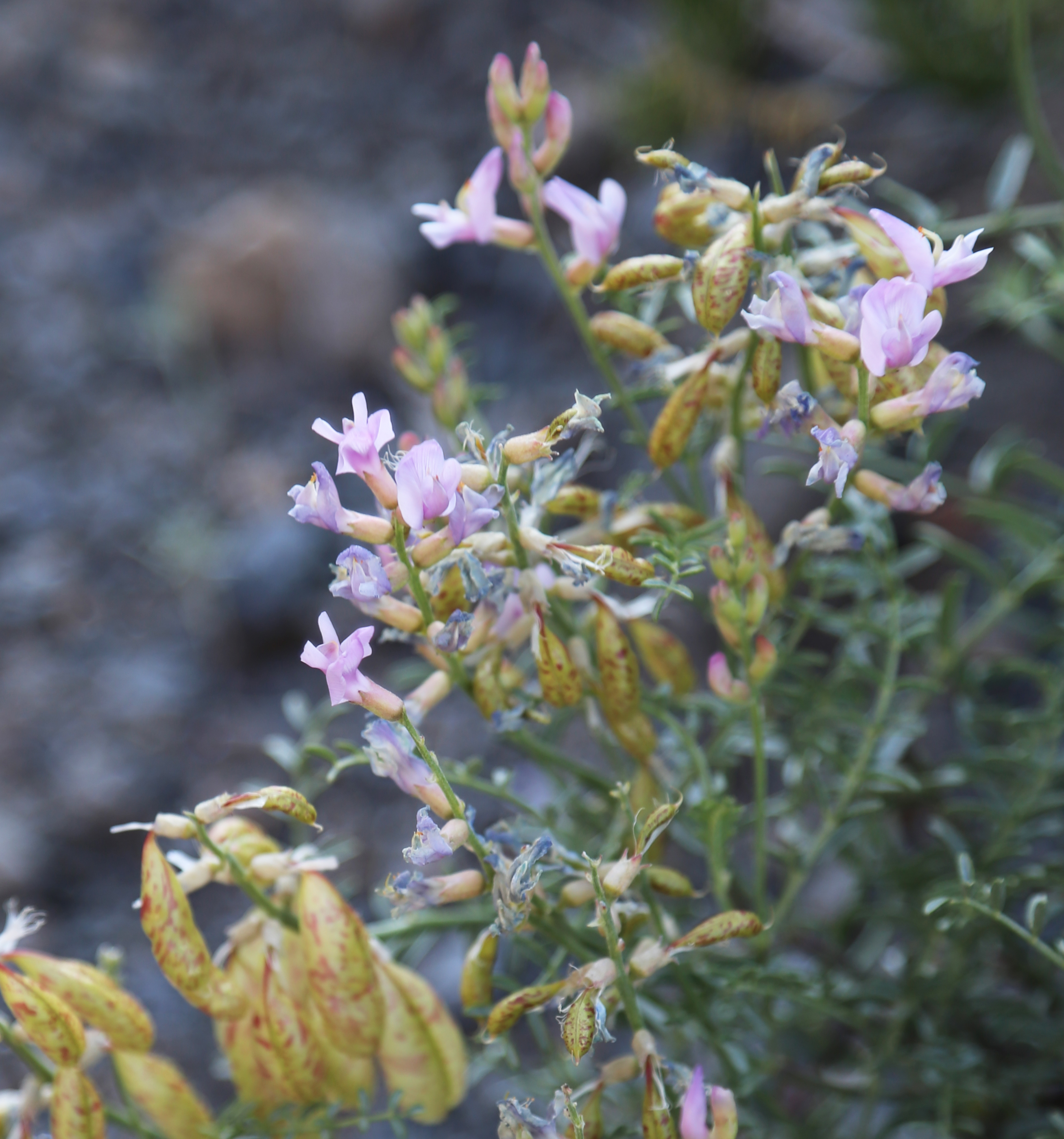 Whitney's locoweed (Astragalus whitneyi), flowers and seedpods. At 2,500 m (8,200 ft) along McGee Creek trail at edge of John Muir Wilderness, Sierra Nevada, California.